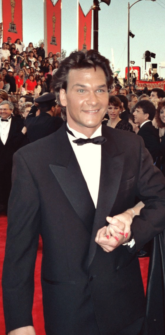 Patrick Swayze on the red carpet at the 1989 Academy Awards, March 29, 1989